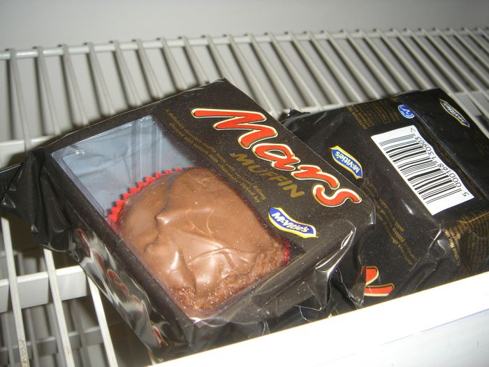 Two Mars Muffin's Still in their packaging.